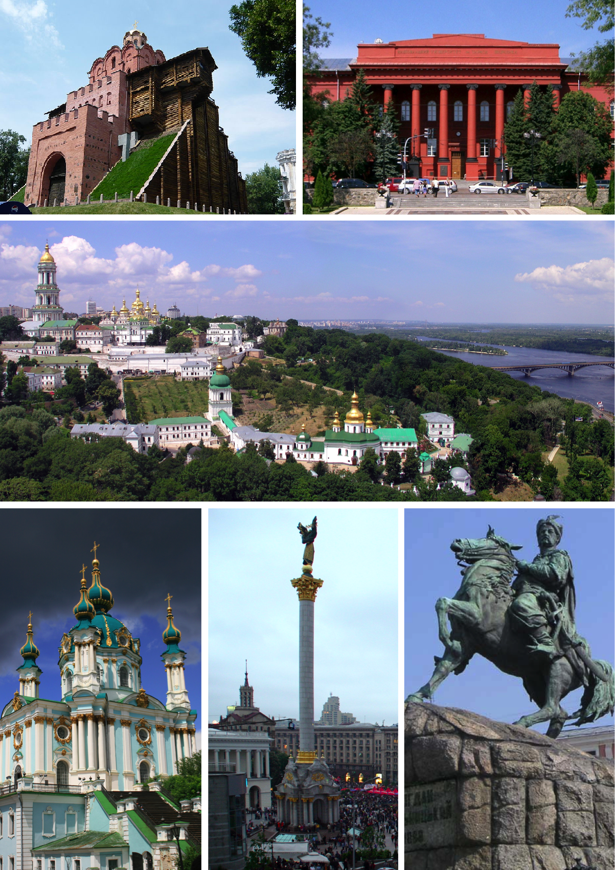 A collage of Kiev, Ukraine's capital city.